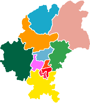 Subdivision of Guiyang